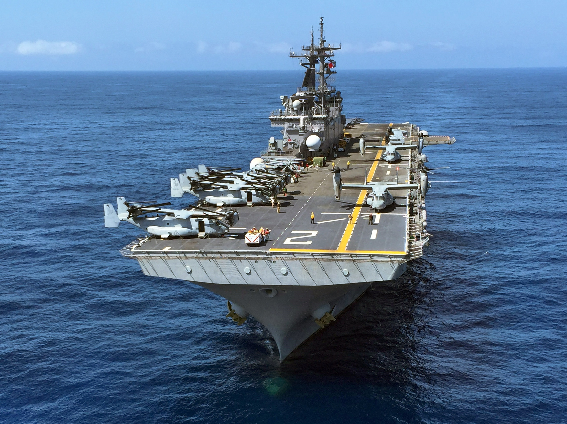 150319-N-MD297-041 The Wasp-class amphibious assault ship USS Essex (LHD 2) transits the Pacific Ocean. Essex is underway participating in a composite training unit exercise with the Essex Amphibious Ready Group.